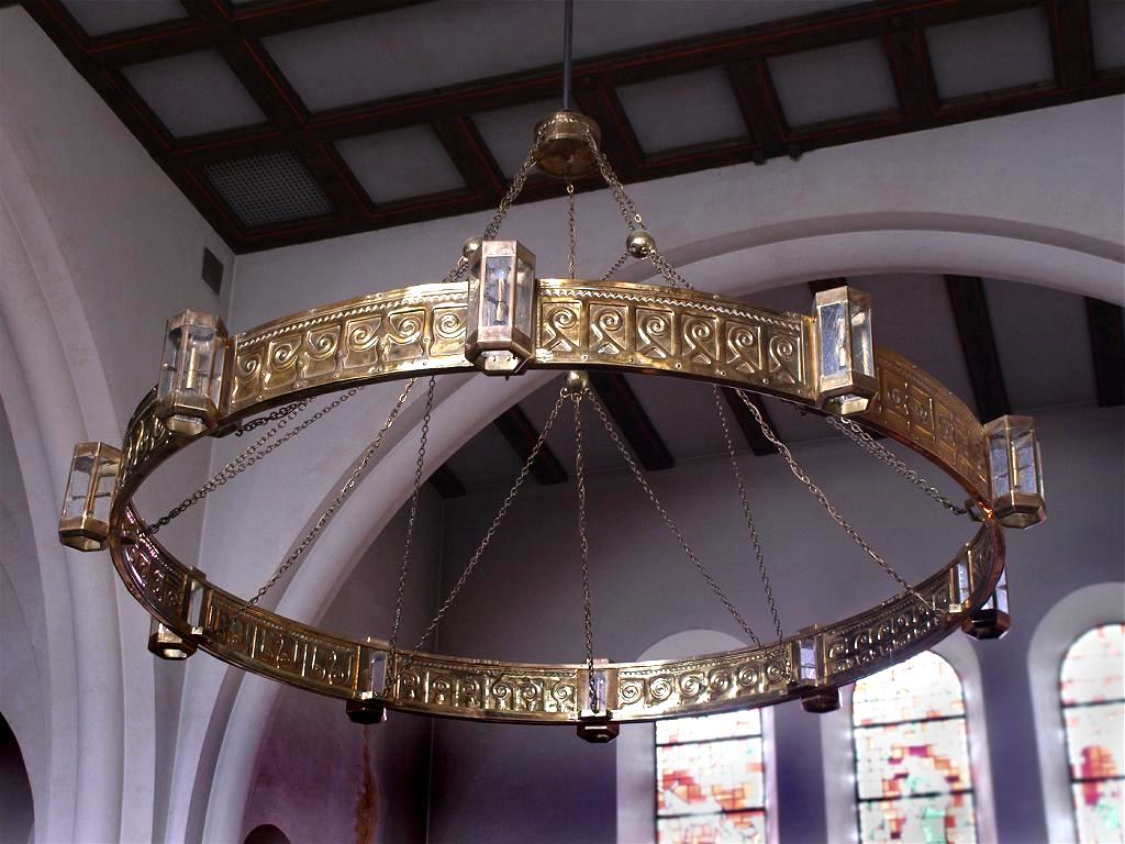 Westerland (Sylt), Slesvic-Holstein (Germany): church St. Nicolai, chandelier, photo 2008